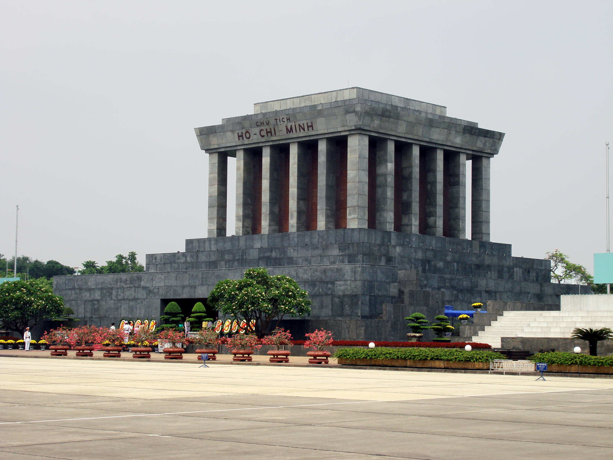 Ho Chi Minh Mausoleum